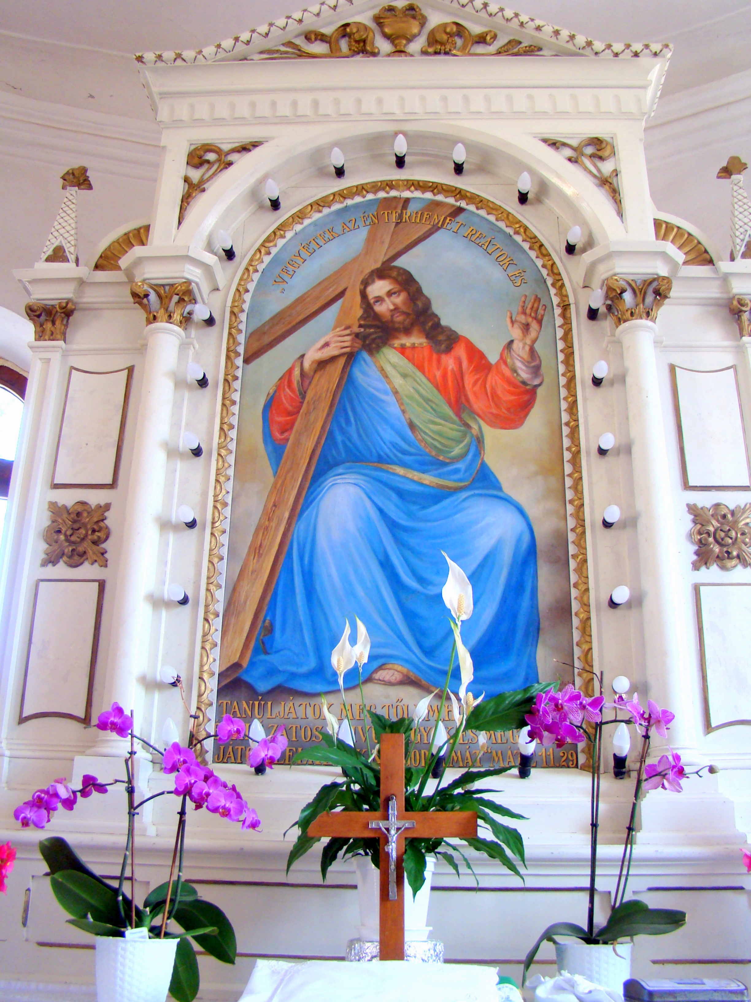 The altar of the lutheran church in Apața, Brașov County, Romania